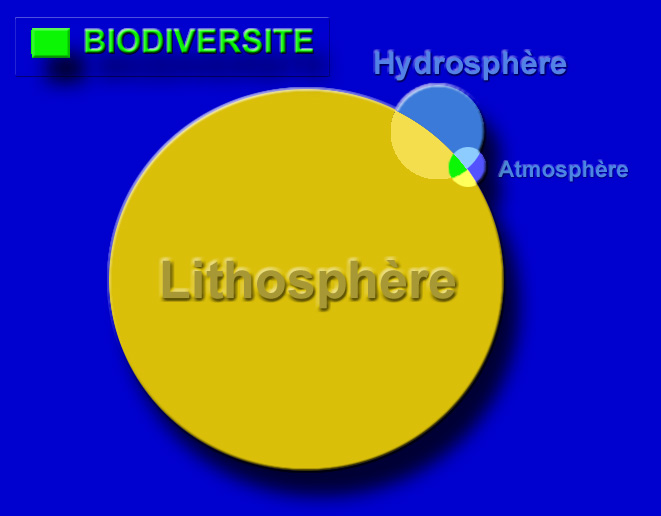 Place of biodiversity in the biosphere ; at the interface between the three spheres (hydrosphere, atmosphere and lithosphere). Biodiversity interferes with each of these three "compartments" of the biosphere, with a link to the climate in 3 cases (via "carbon sinks" in particular)